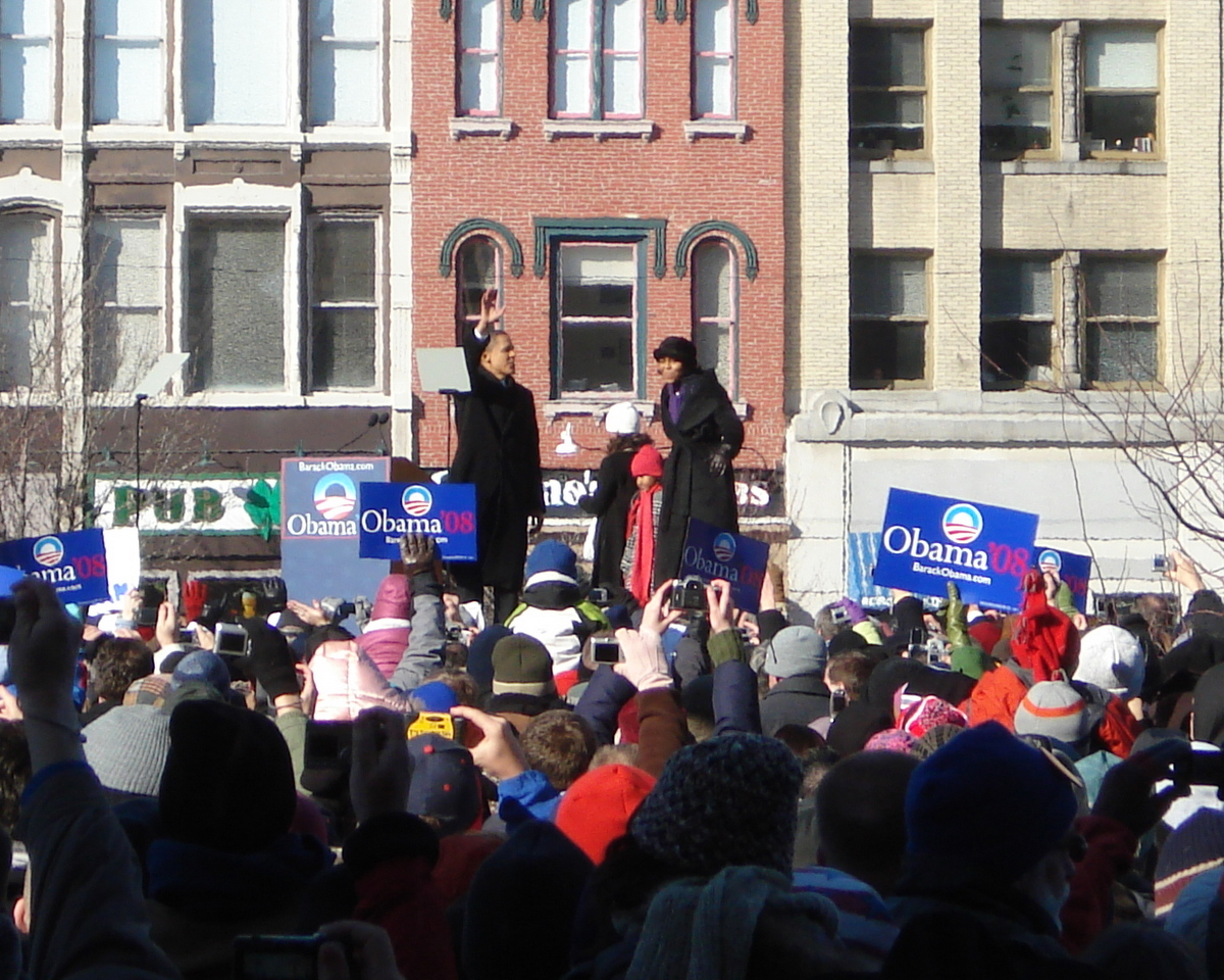 Sen. Barack Obama announces run for the presidency in Springfield Illinois.